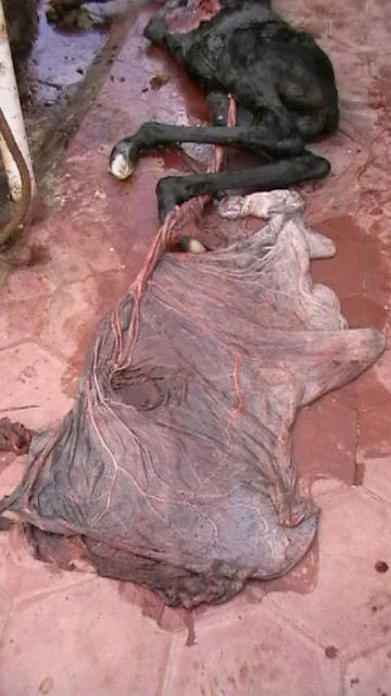 afterbirth from she donkey pregnant of mule foal Walon: Netieure d' ene både k' a bådlé on moultea